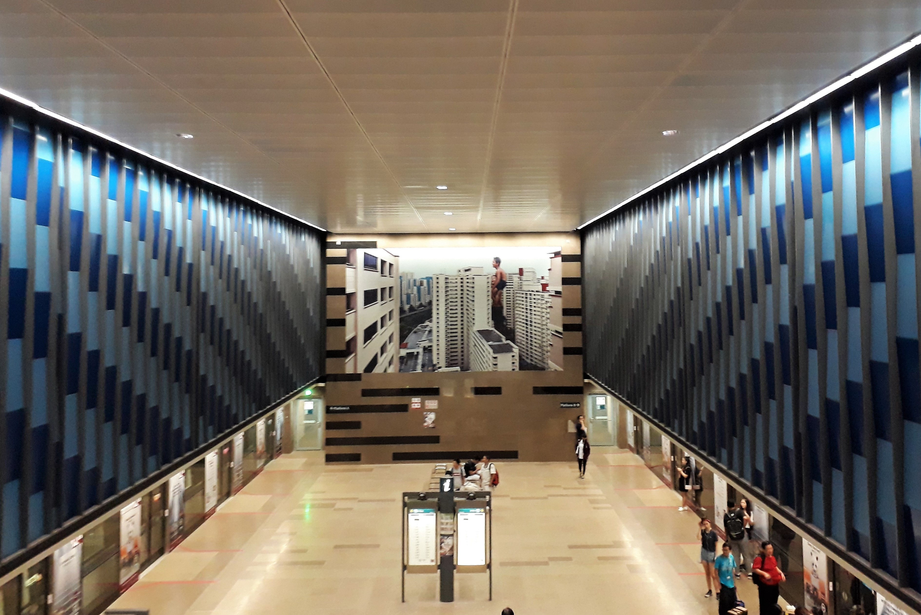 Bukit Panjang MRT Station